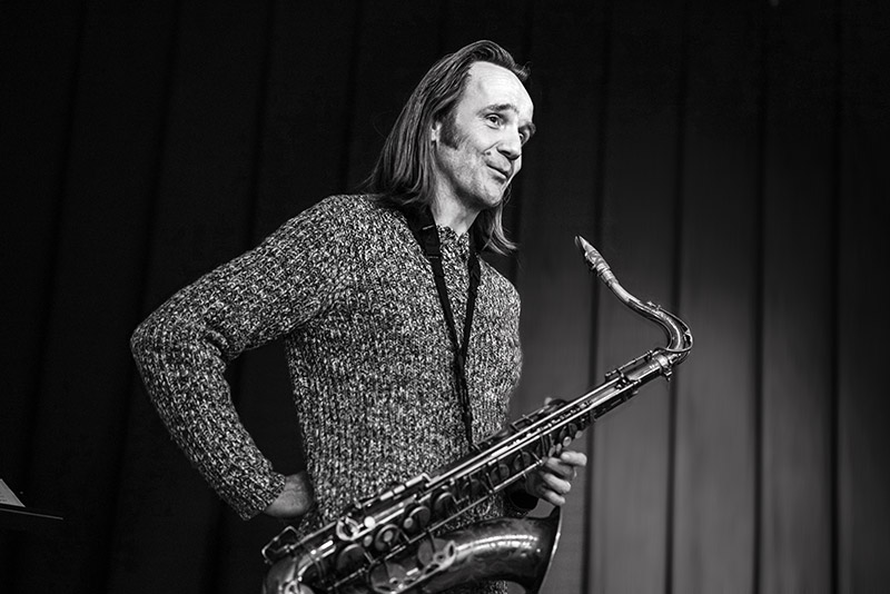 Marc Mommaas in Aarhus, Denmark 2018. Playing duo with Nikolaj Hess (p)